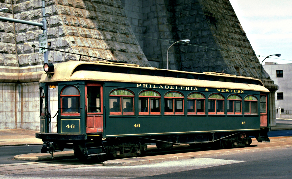 Preserved interurban car 46 (built in 1907) of the Philadelphia & Western Railroad, passing under the Benjamin Franklin Bridge, southbound on the former heritage tram line (1982–95) in Penn's Landing, on Philadelphia's waterfront. Car 46 is in the collection of the Electric City Trolley Museum.